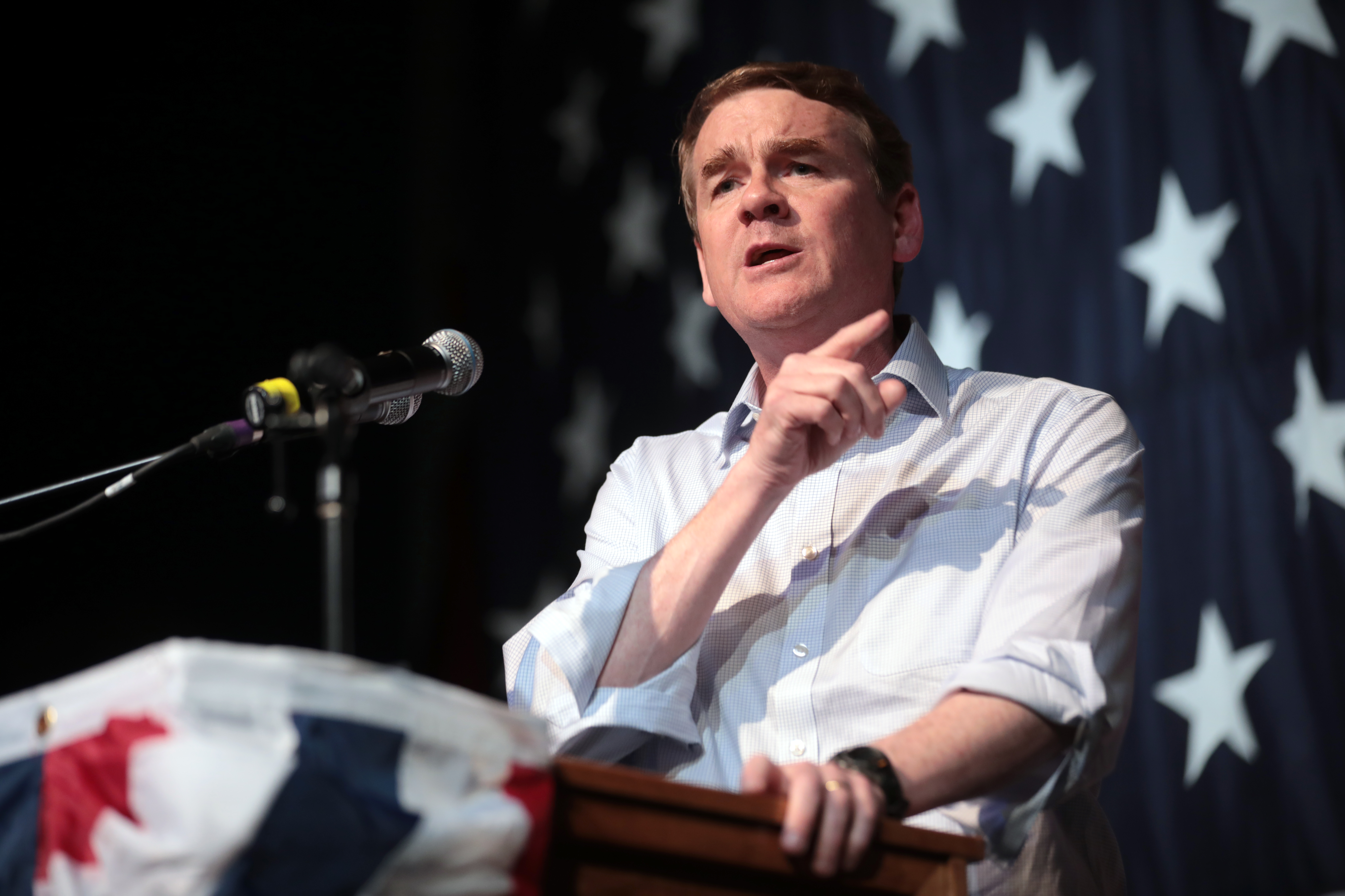 U.S. Senator Michael Bennet speaking with attendees at the 2019 Iowa Democratic Wing Ding at Surf Ballroom in Clear Lake, Iowa.